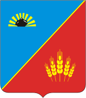 Mikhailovsky rayon (Primorye krai), coat of arms